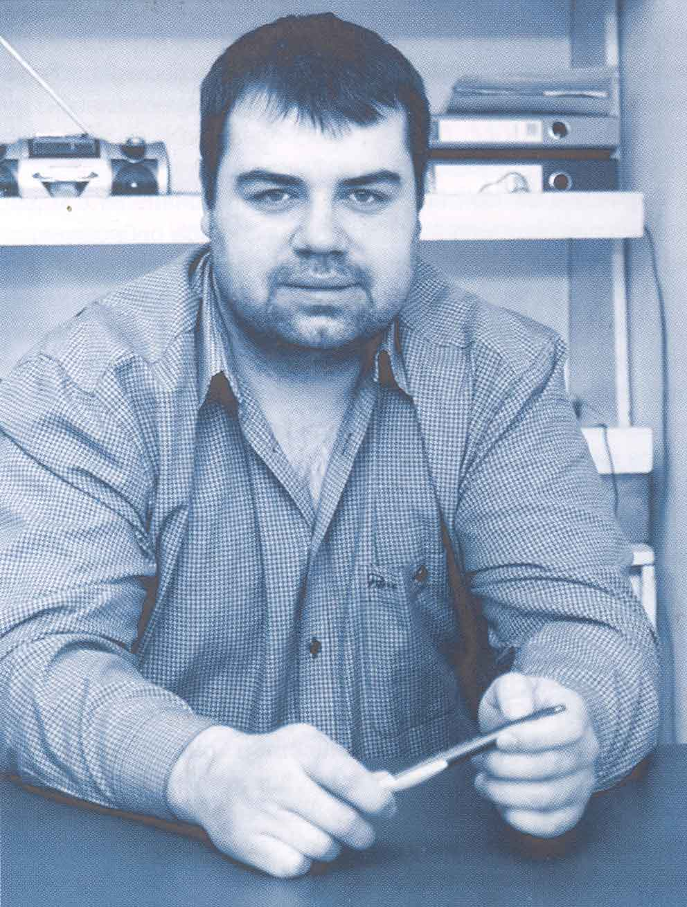 Georgi Stoev writer photo